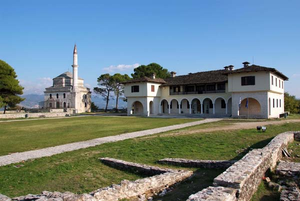 The Byzantine Museum of Ioannina, with the Fethiye Mosque in the background, in the old citadel (Its Kale) of the city